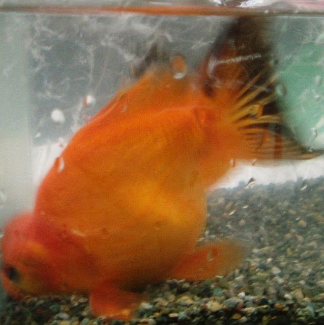 lesserpanda(goldfish)